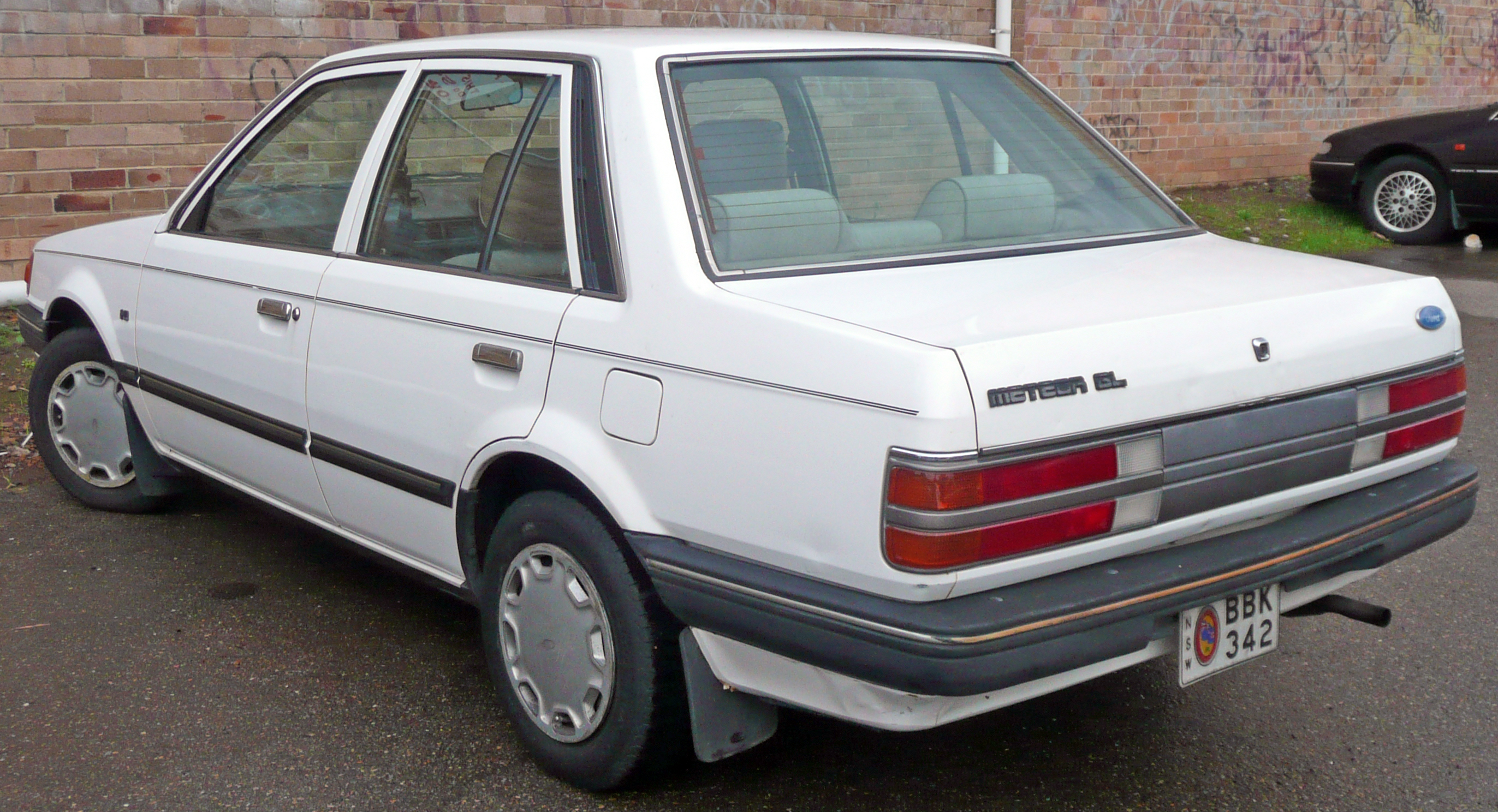 1986 Ford Meteor (GC) GL sedan. Photographed in Sutherland, New South Wales, Australia.